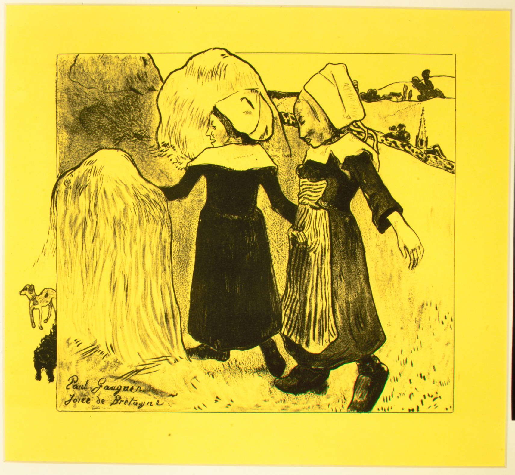 Print; Prints